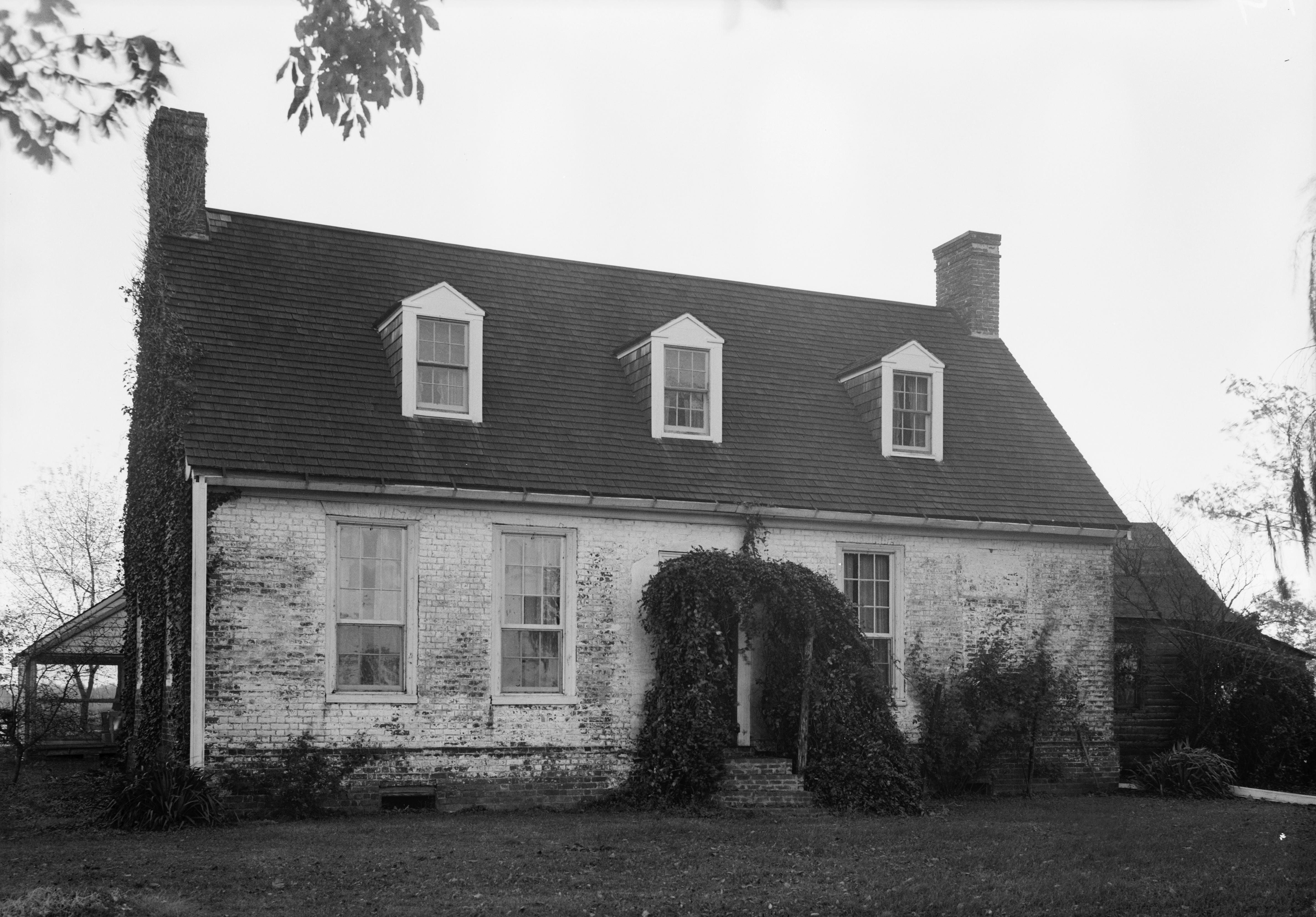 Preston on the Patuxent: Historic American Buildings Survey E.H. Pickering, Photographer November 1936